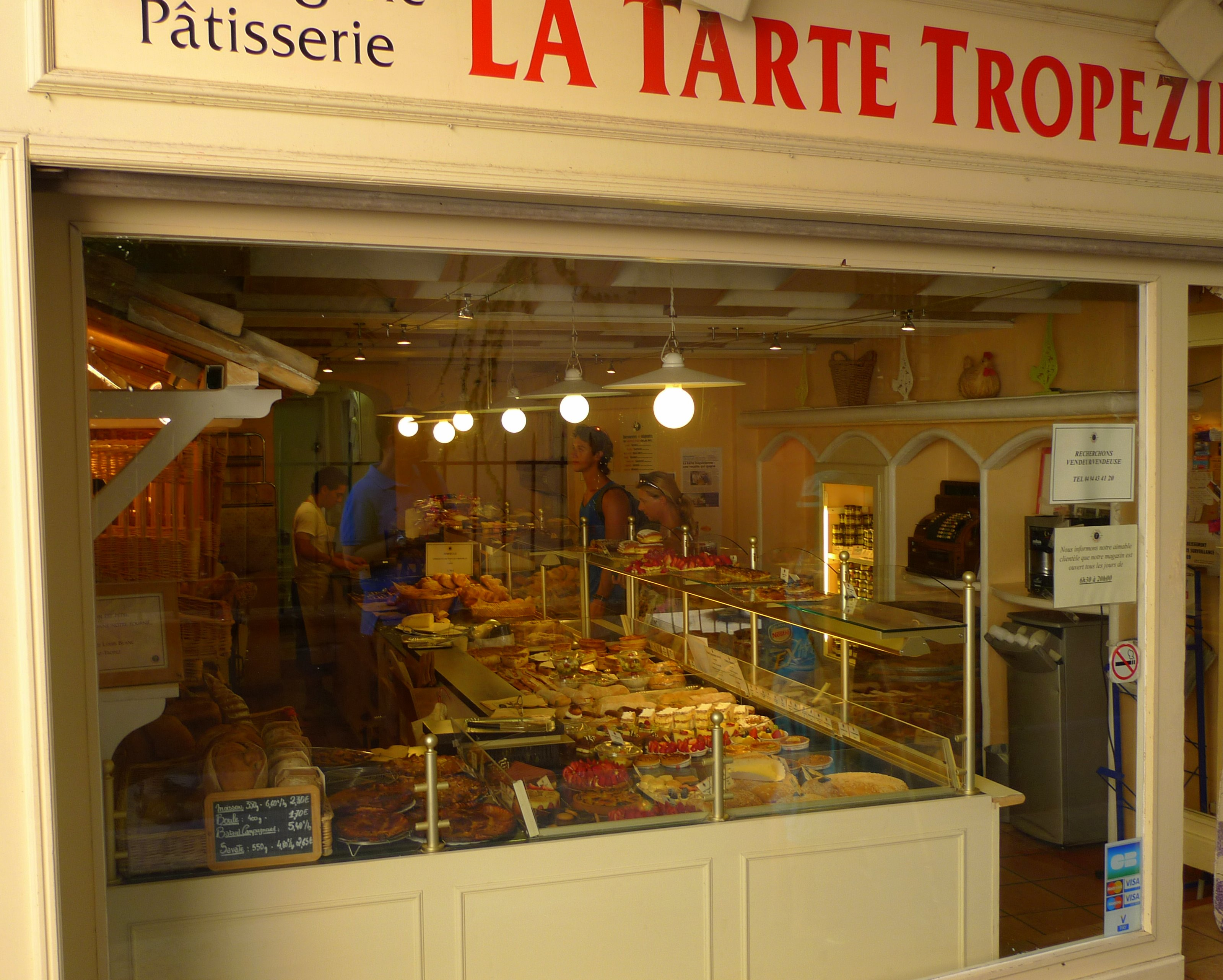 La Tarte Tropézienne Photo is attached to GPSed track St. Tropez walkabout